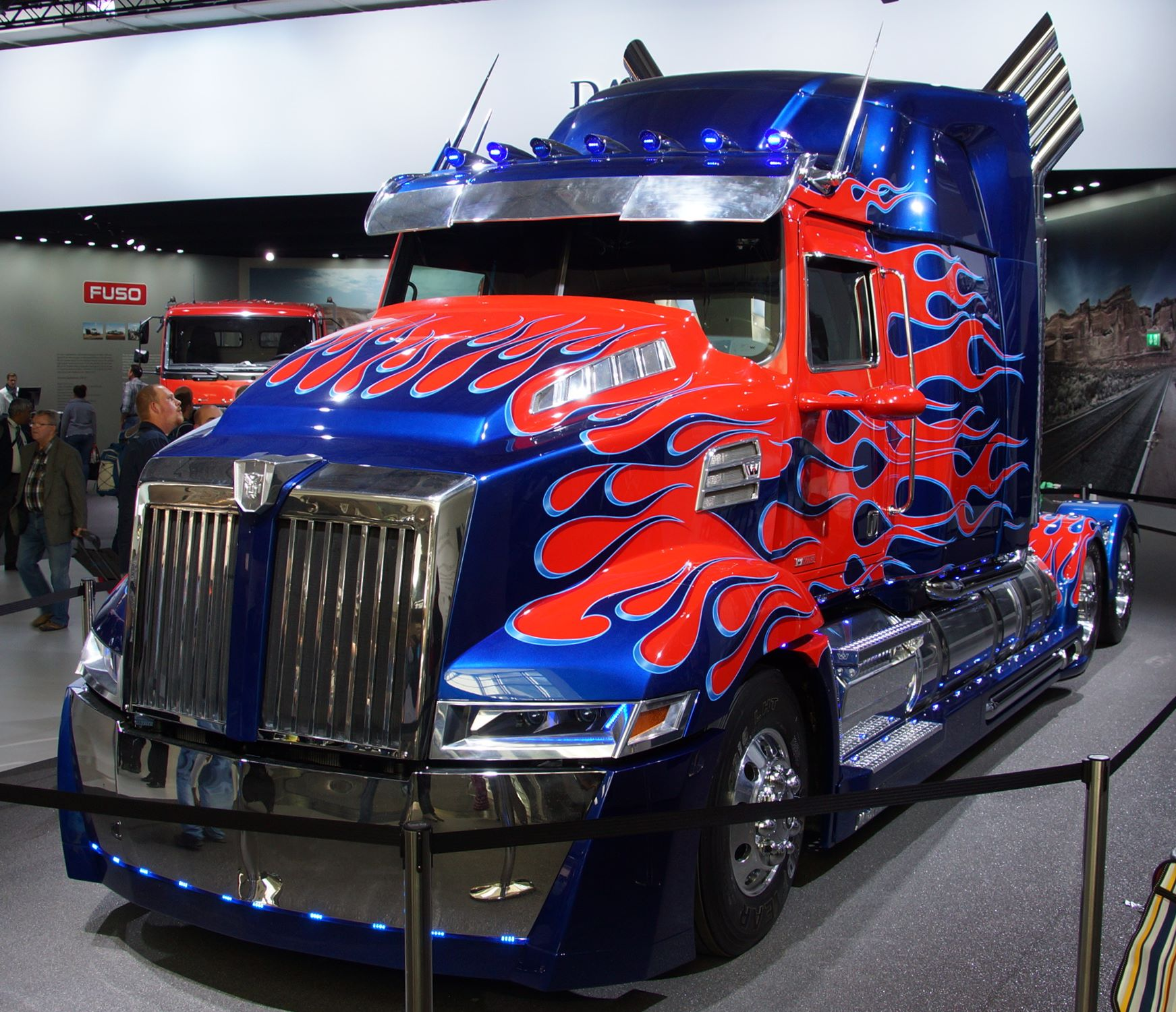 Truck at IAA 2014